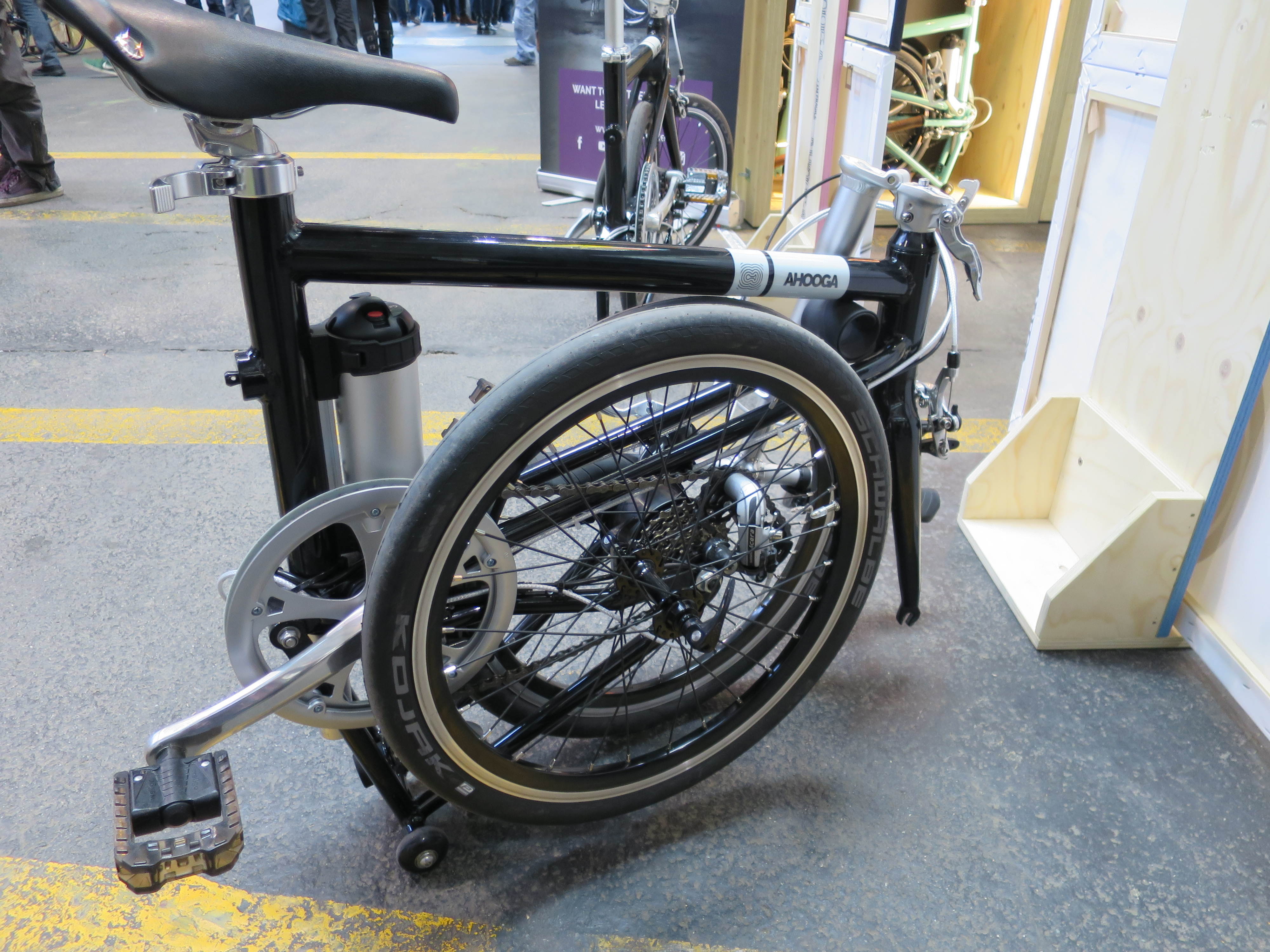 Ahooga folding bike Berliner Fahrradschau 2017.